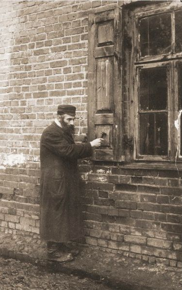 Ezriel, clerk of the Jewish synagogue in Biała Podlaska. Ezrielke the shames (sexton) was also athe shabes-klaper (called the Jews for Saturday service by knocking). Biala, Poland, 1926. He knocked on shutters too.